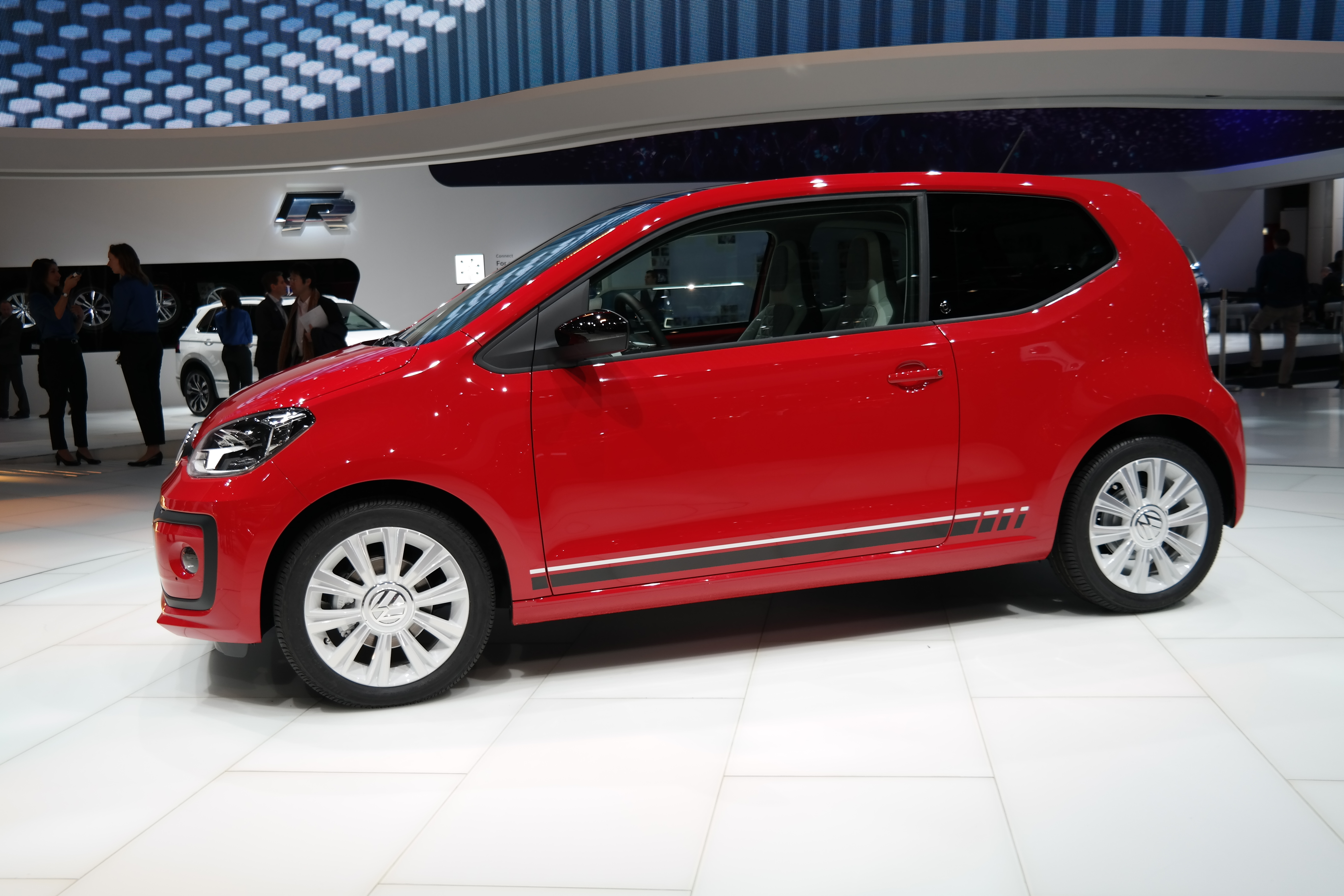 Geneva Motor Show 2016 (photo taken on the first press day)